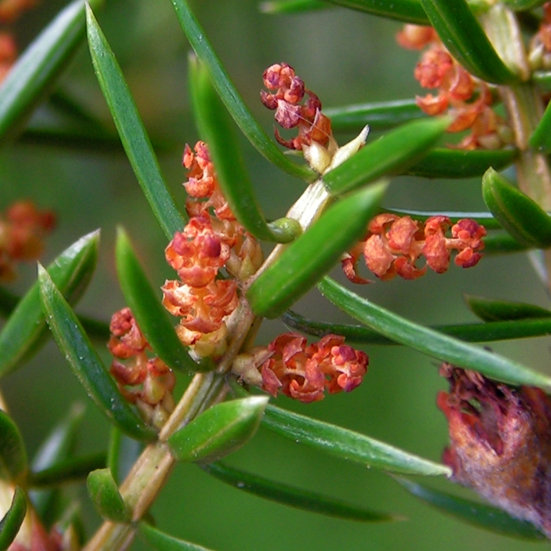 The male strobils of Juniperus communis. Moscow region, Russia.